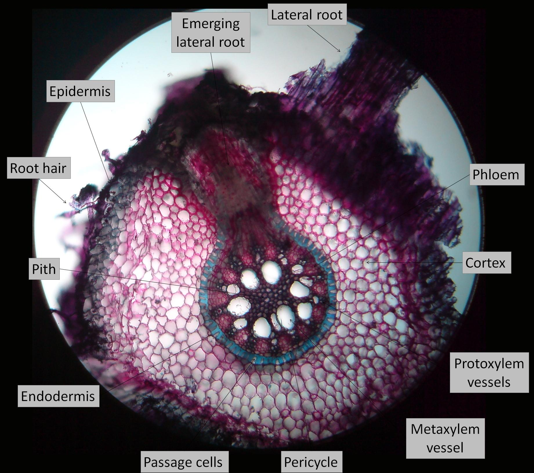 Microscopic observation of the transverse incision of the root of the plant Iris germanica L (Iridaceae Family), after staining with ruthenium red and methylene blue. The formation and development of lateral roots from the vascular cylinder are observed. We can also observe the epidermis, root hairs, cortical parenchyma, central cylinder as well as individual cells.